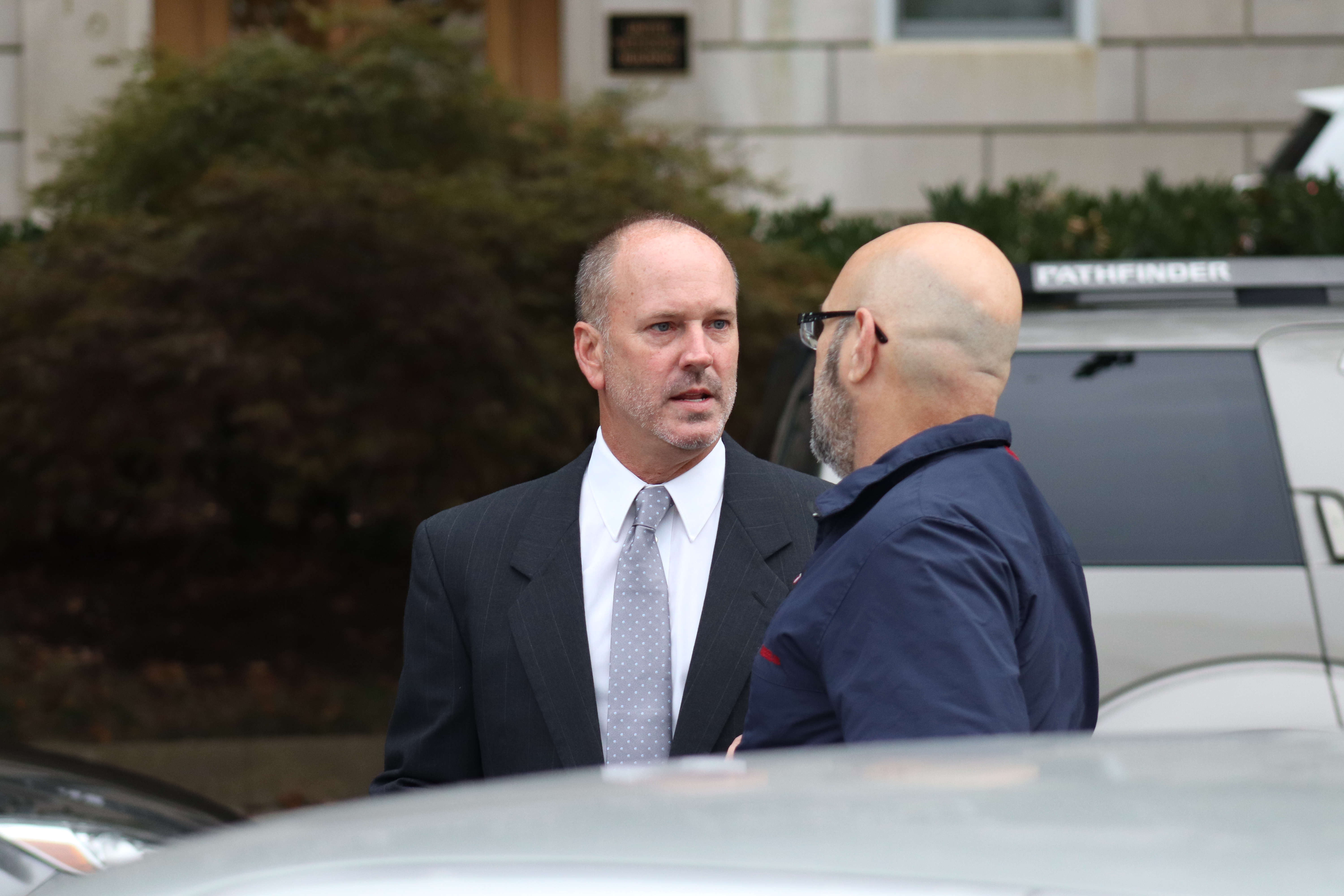 Waiting during evacuation of outdoor plaza and sidewalks due to two suspicious packages before PROTECT LGBTQ WORKERS RALLY at United States Supreme Court along Maryland Avenue between 1st and 2nd Street, NE, Washington DC on Tuesday morning, 8 October 2019 by Elvert Barnes Photography Learn more about the clearing of the plaza in front of the Supreme Court at Follow Tuesday, 8 October 2019 PROTECT LGBT WORKERS RALLY event page at Elvert Barnes Tuesday, 8 October 2019 PROTECT LGBTQ WORKERS RALLY docu-project at